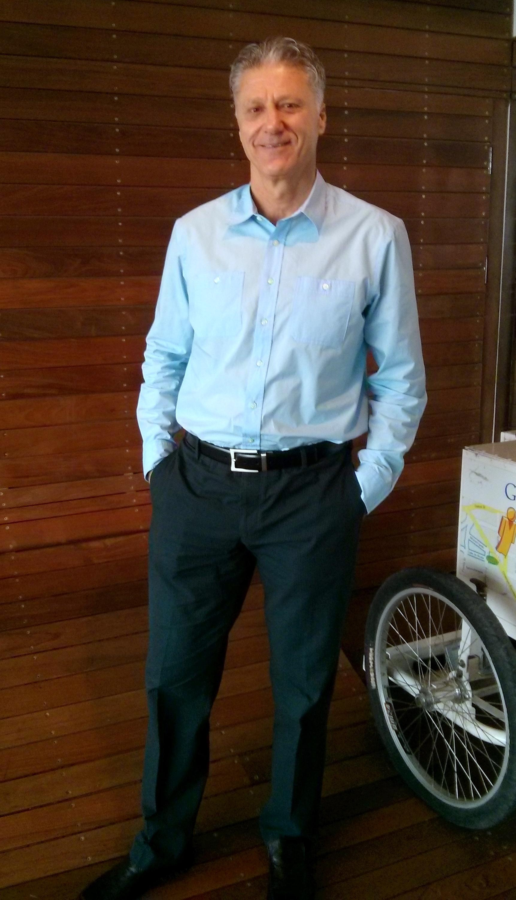 Israeli basketball player Micky Berkowitz